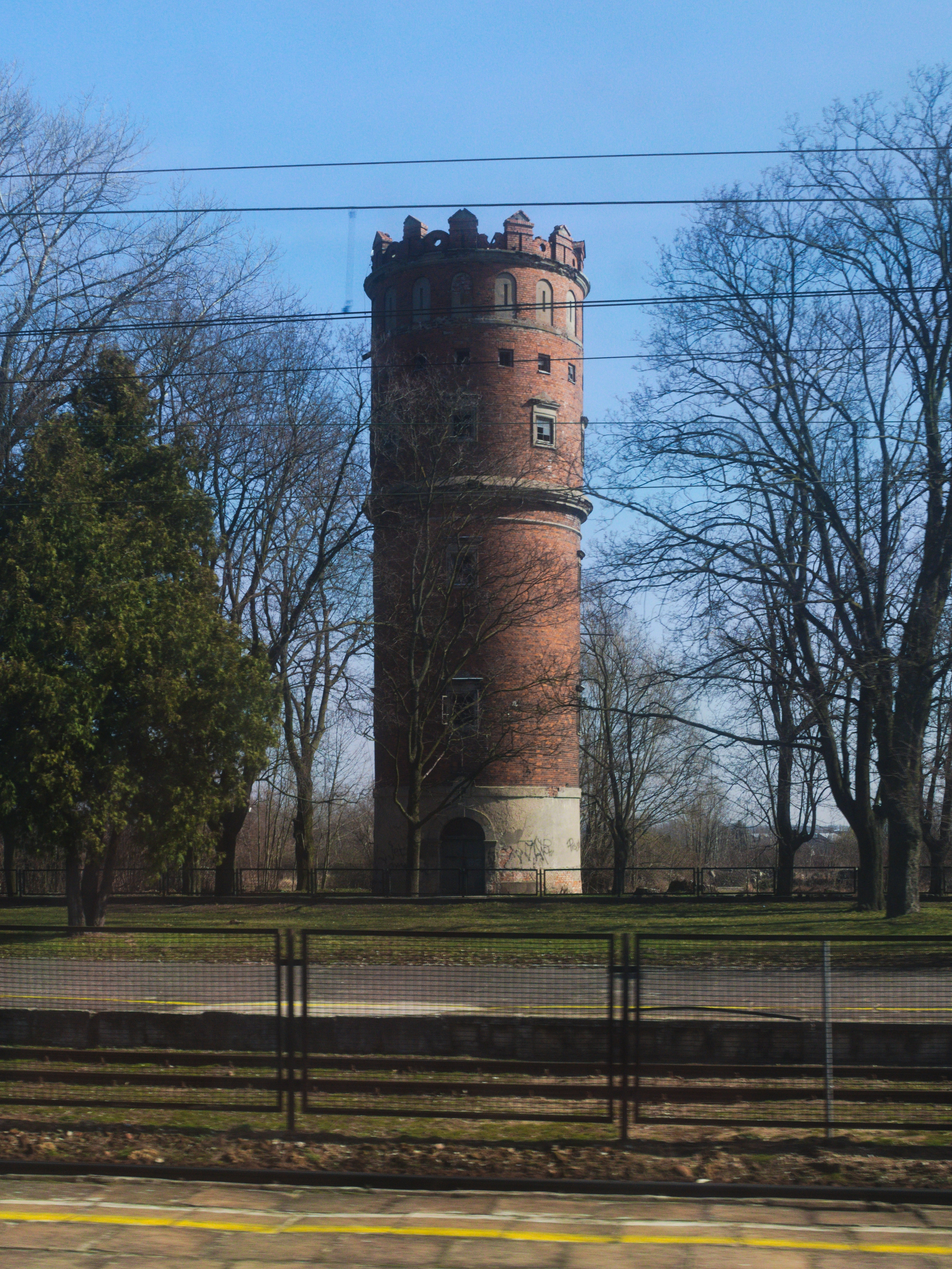 water tower in Ozorków at Ozorków train station, seen from Hutnik train to Gdynia